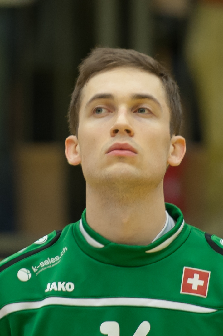 Friendly match Austria - Switzerland 2015-01-06 at Tulln, Austria